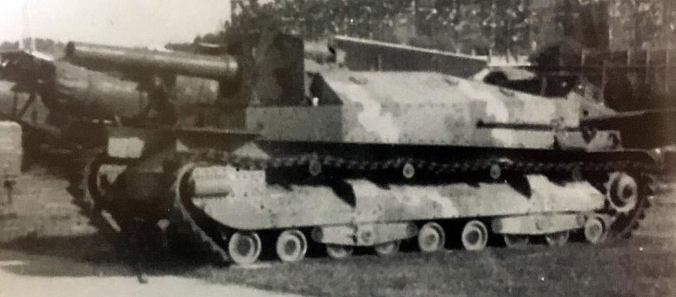 Imperial Japanese Army Experimental Hi-Ro Sha self-propelled gun